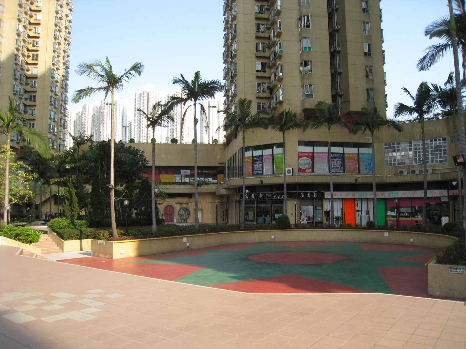 Tsing Yi Garden Courtyard